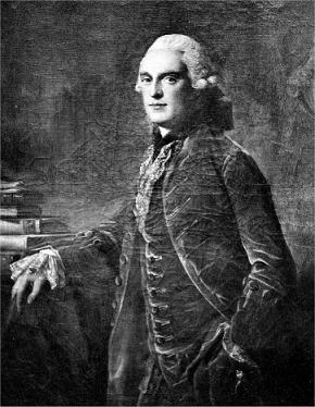 George Coventry, 6th Earl of Coventry (1722-1809).